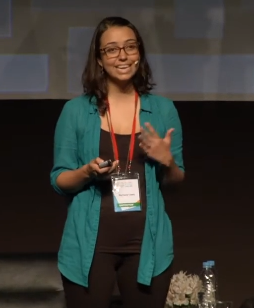 Mariana Costa 17 Nov 2016 Entrepreneur born in Peru